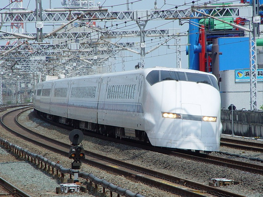 Prototype 300 series shinkansen set J1 approaches Hamamatsu Station from the east on a test run